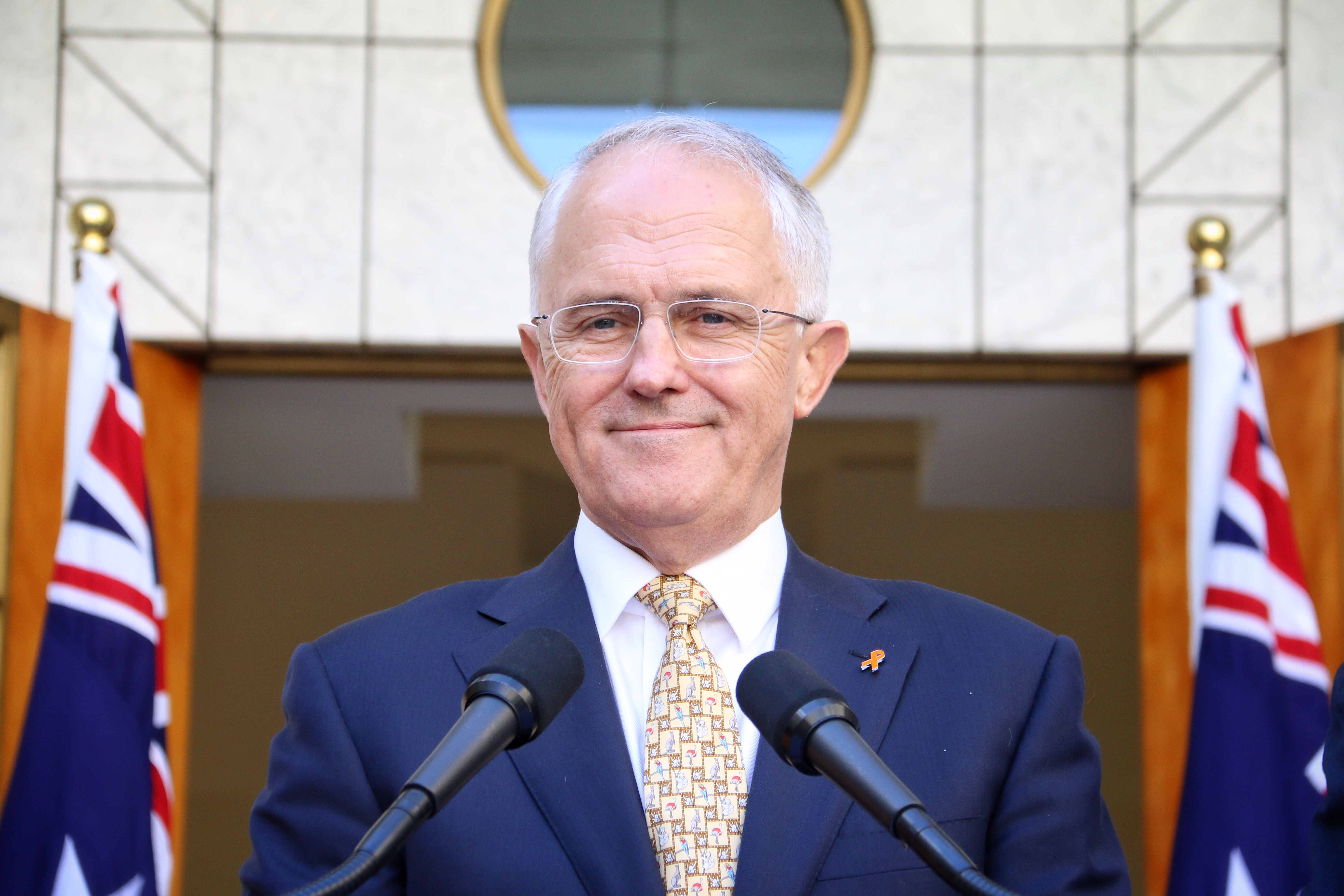 Prime Minister Malcolm Turnbull speaking into microphones in Canberra in March 2016